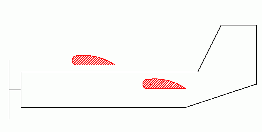 Wing arrangement of a Flying Flea (miniature aircraft)